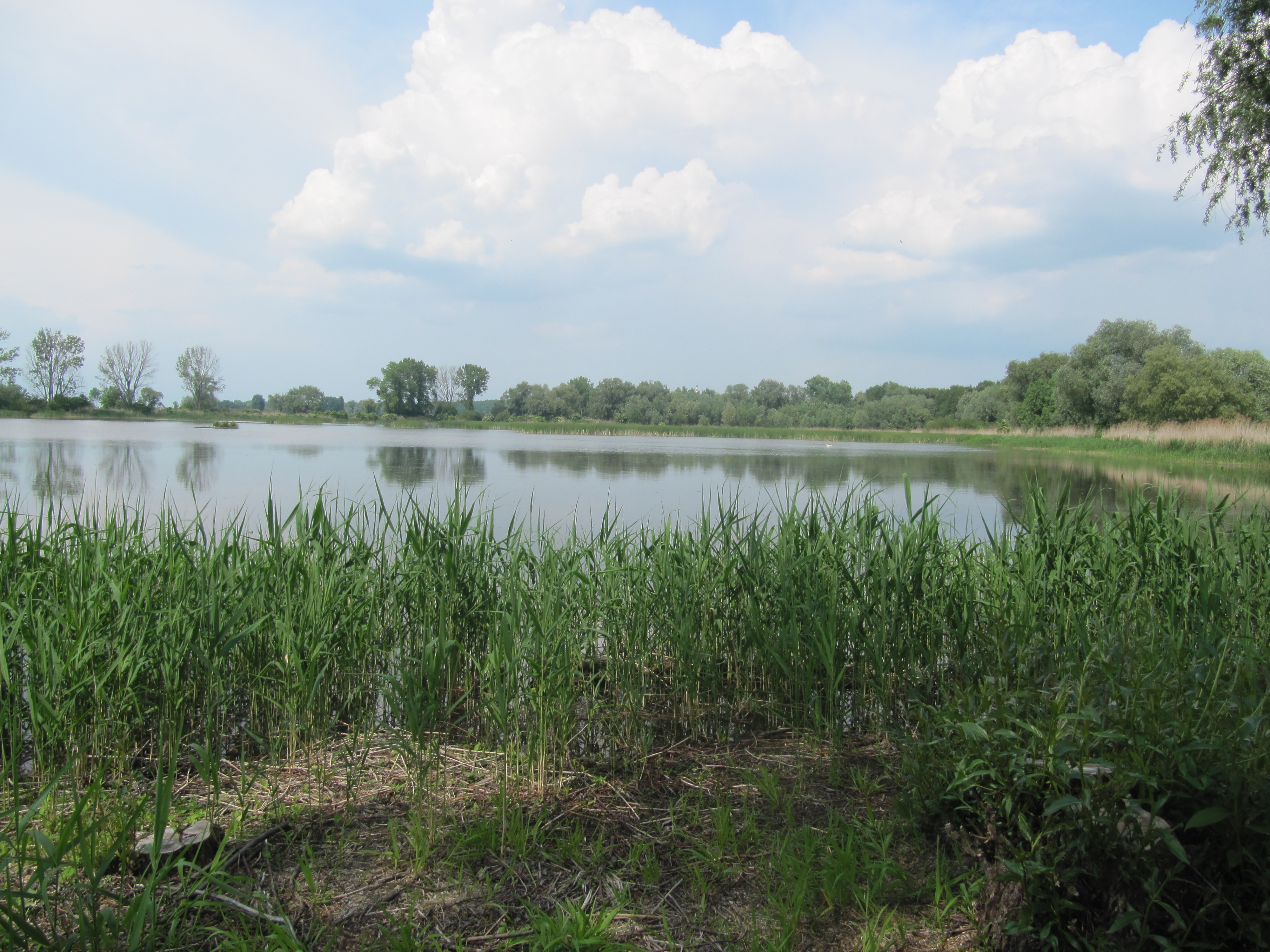 Hulín in Kroměříž District, Czech Republic, part Záhlinice. Záhlinické rybníky, nature park. }